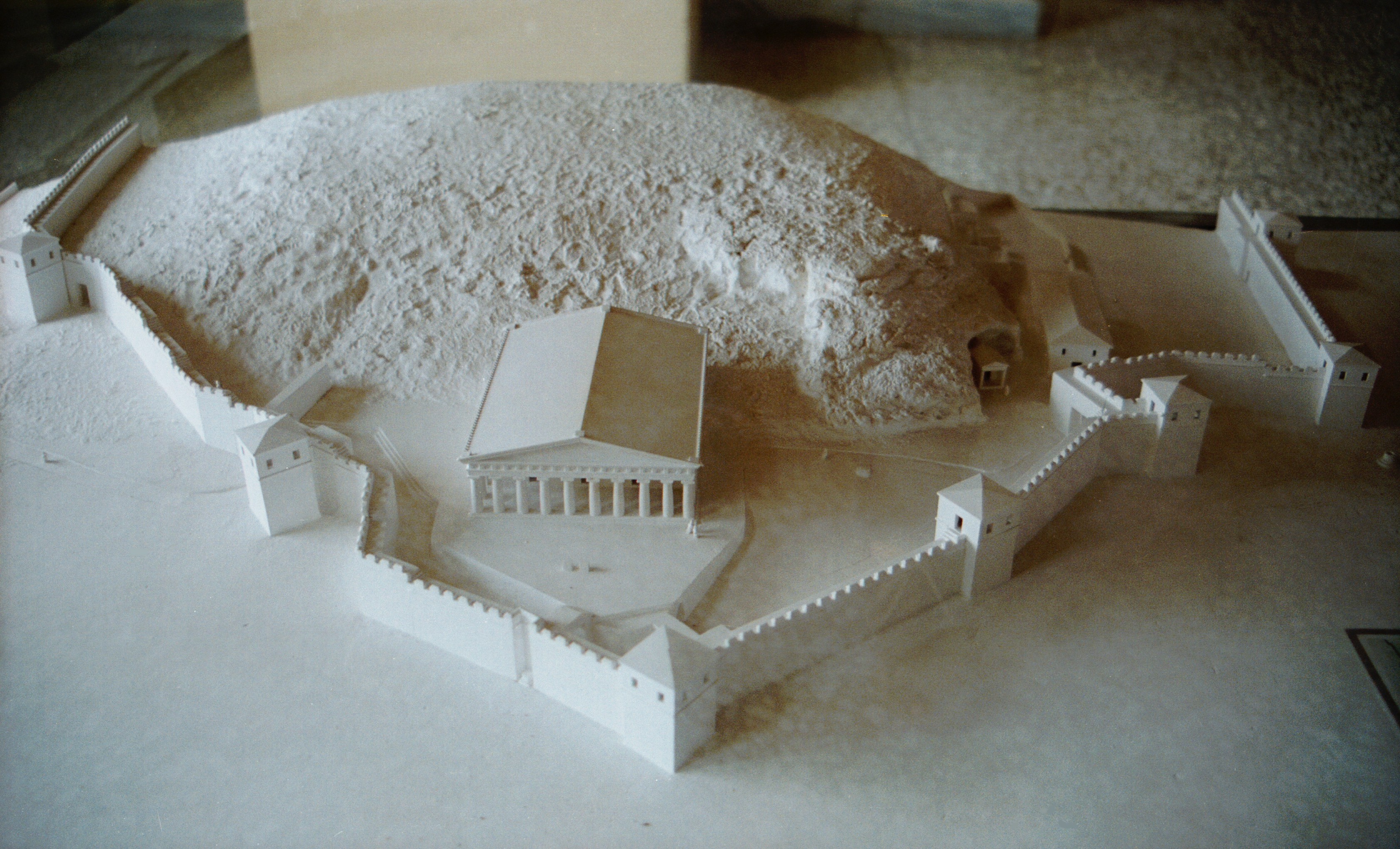 Reconstruction of Eleusinian sacred area in the classic period: Amid Telestereion (hall of the initiations), a small shrine to the right is the temple of Pluto. At that time it was the Athenian state cult. Archaeological Museum of Eleusis. Archaeological Museum of Eleusis.